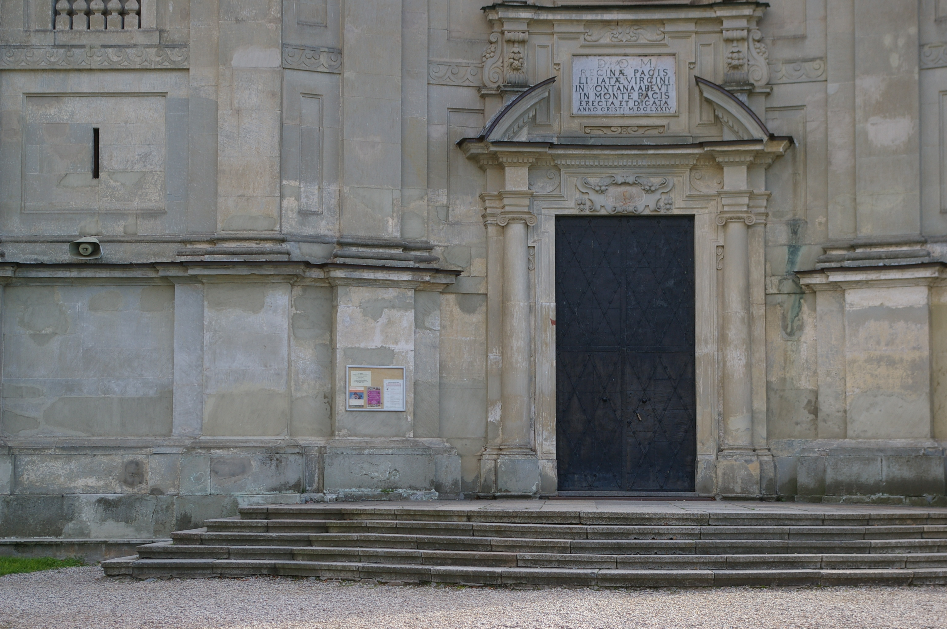 Front door view of Pažaislis monastery church.